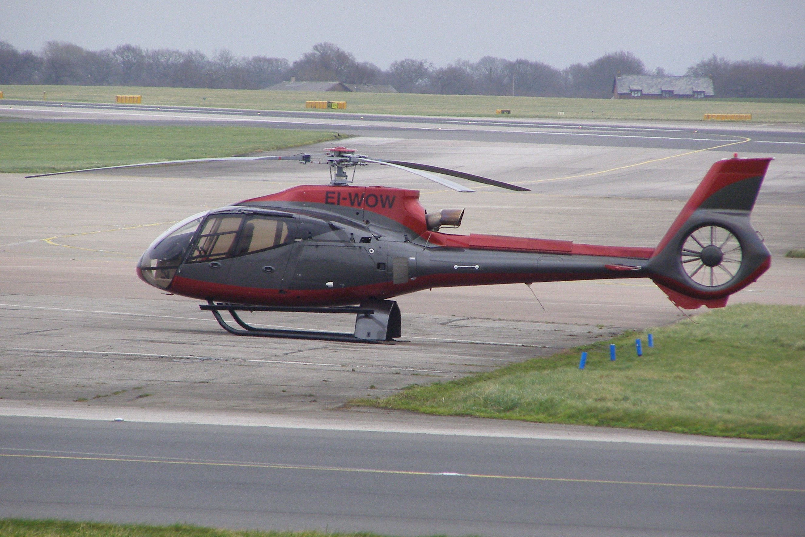 Europcopter EC130 EI-WOW at Manchester Airport